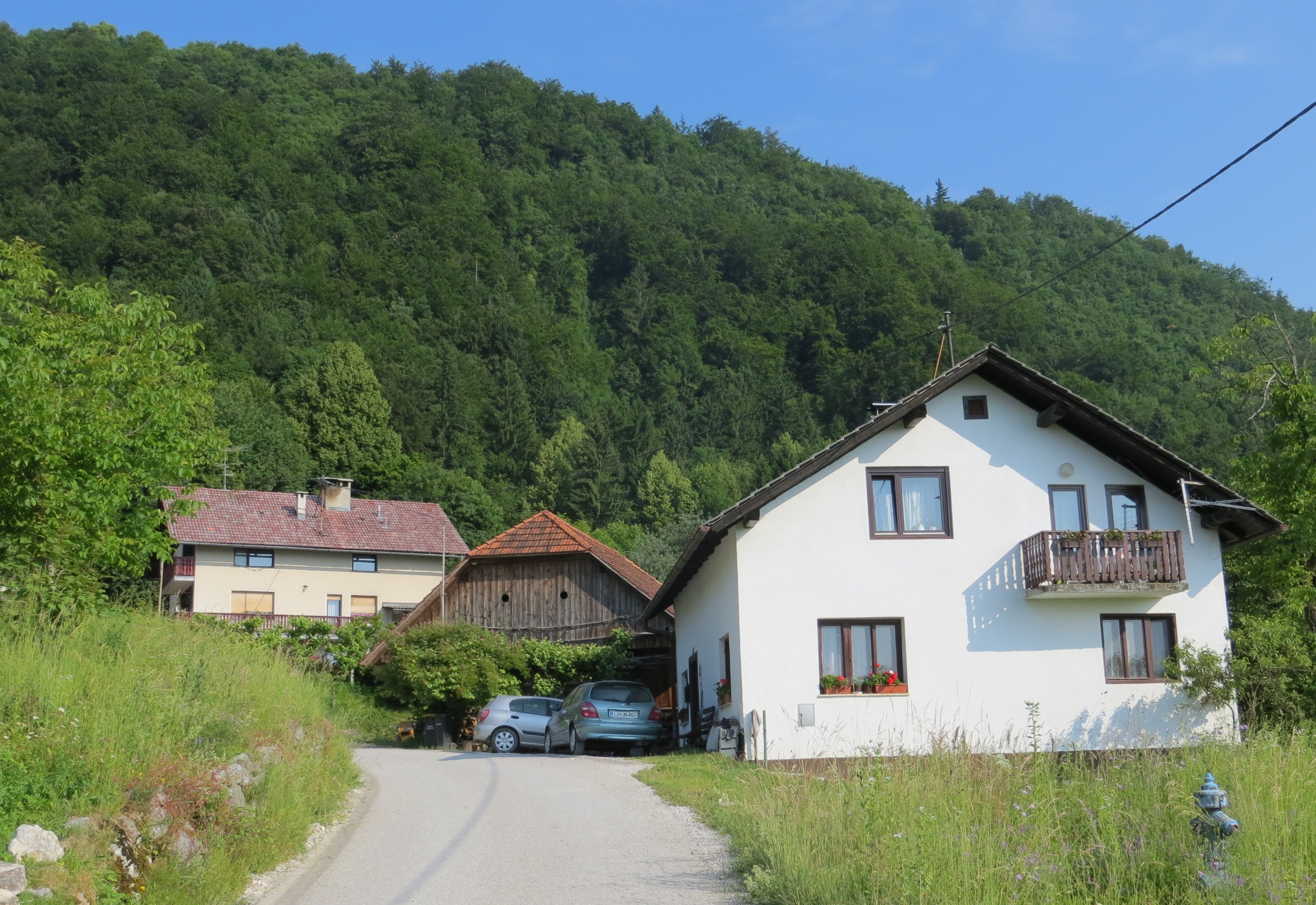 Spodnji Prekar, Municipality of Moravče, Slovenia